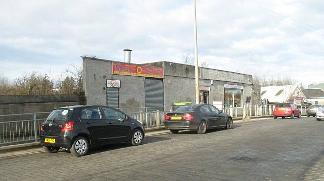 Gower Street Fast food outlet on a bridge over the railway to Paisley Canal Street. Former Bellahouston station building.